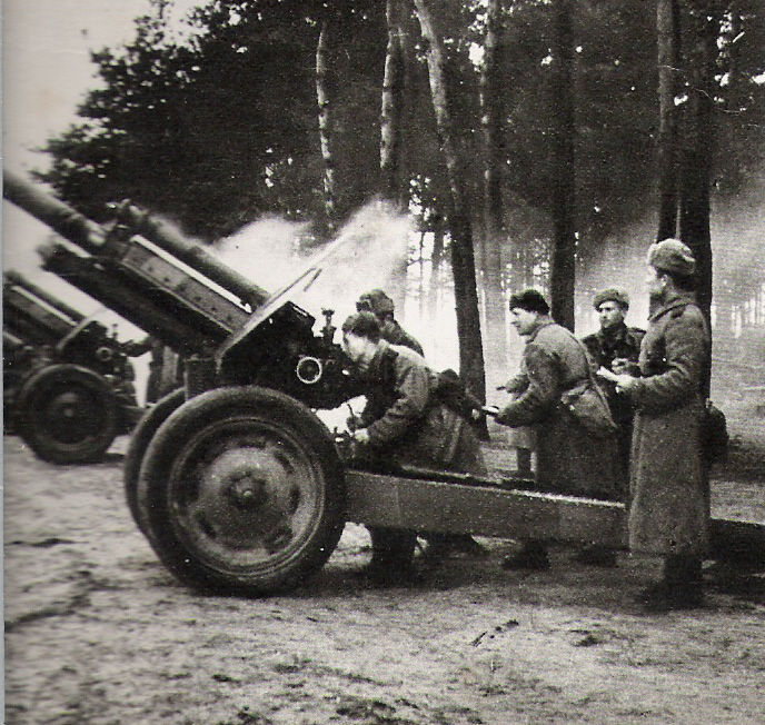 Soviet artillery in action (Baltic offensive 1944)